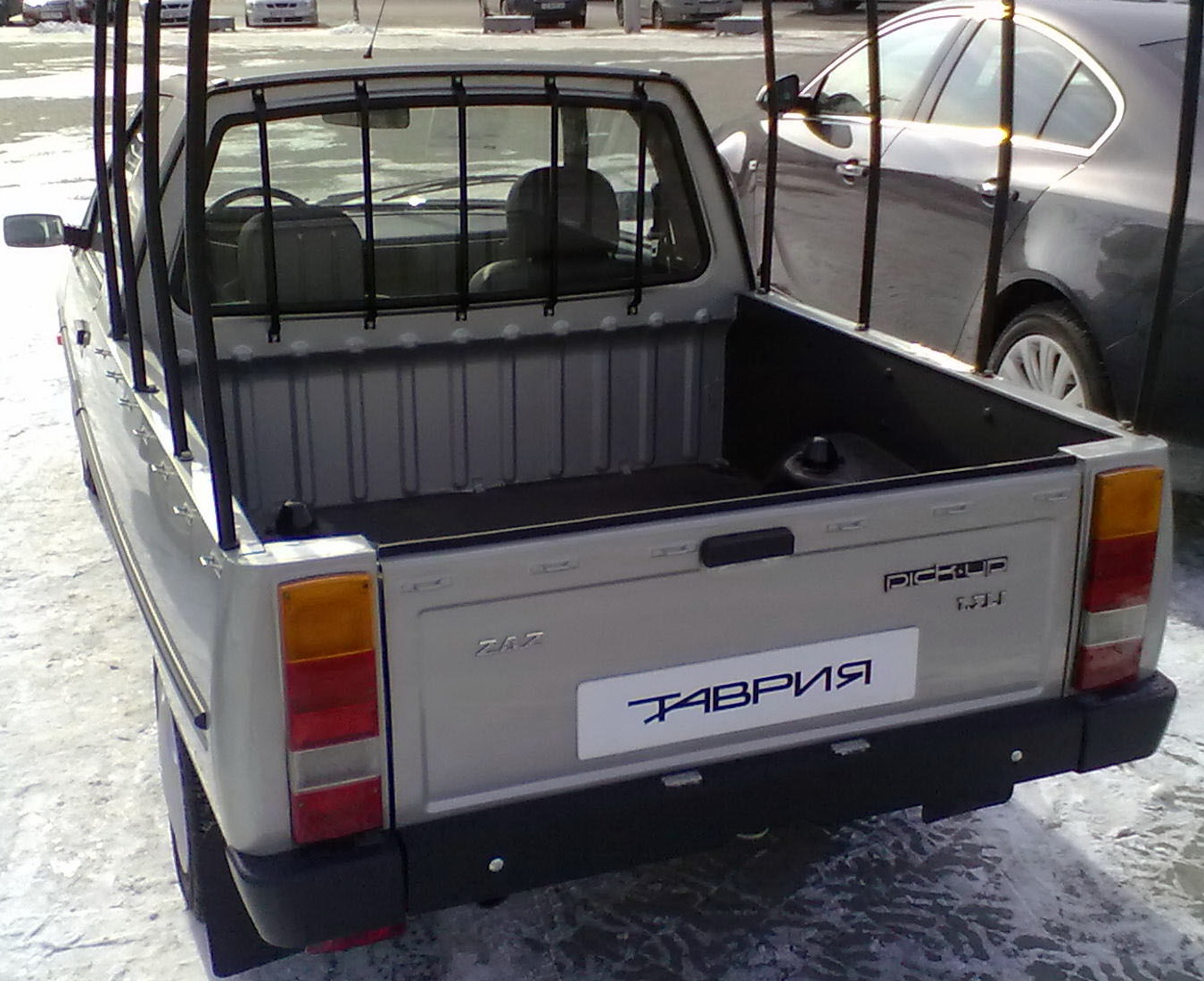 ZAZ-11055840 Tavria Pick-Up